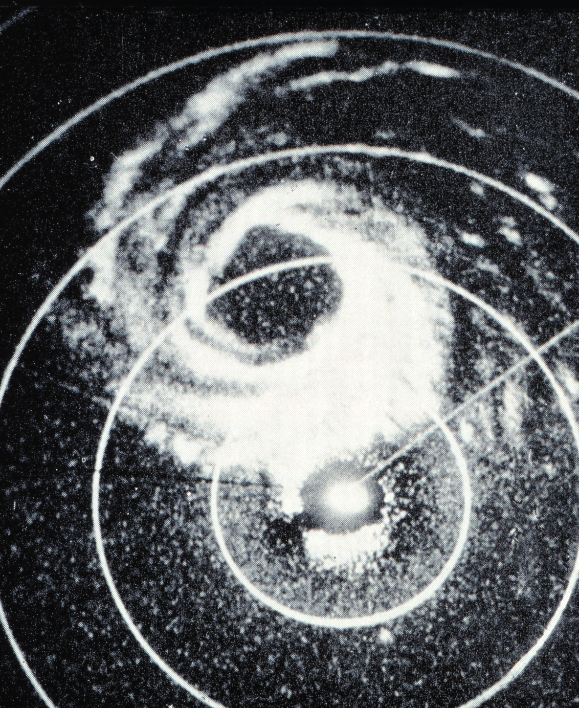 Image of PPI scope of SPS-6 radar on the USS MIDWAY showing rare January hurricane northeast of British Virgin Islands. This was hurricane Alice.